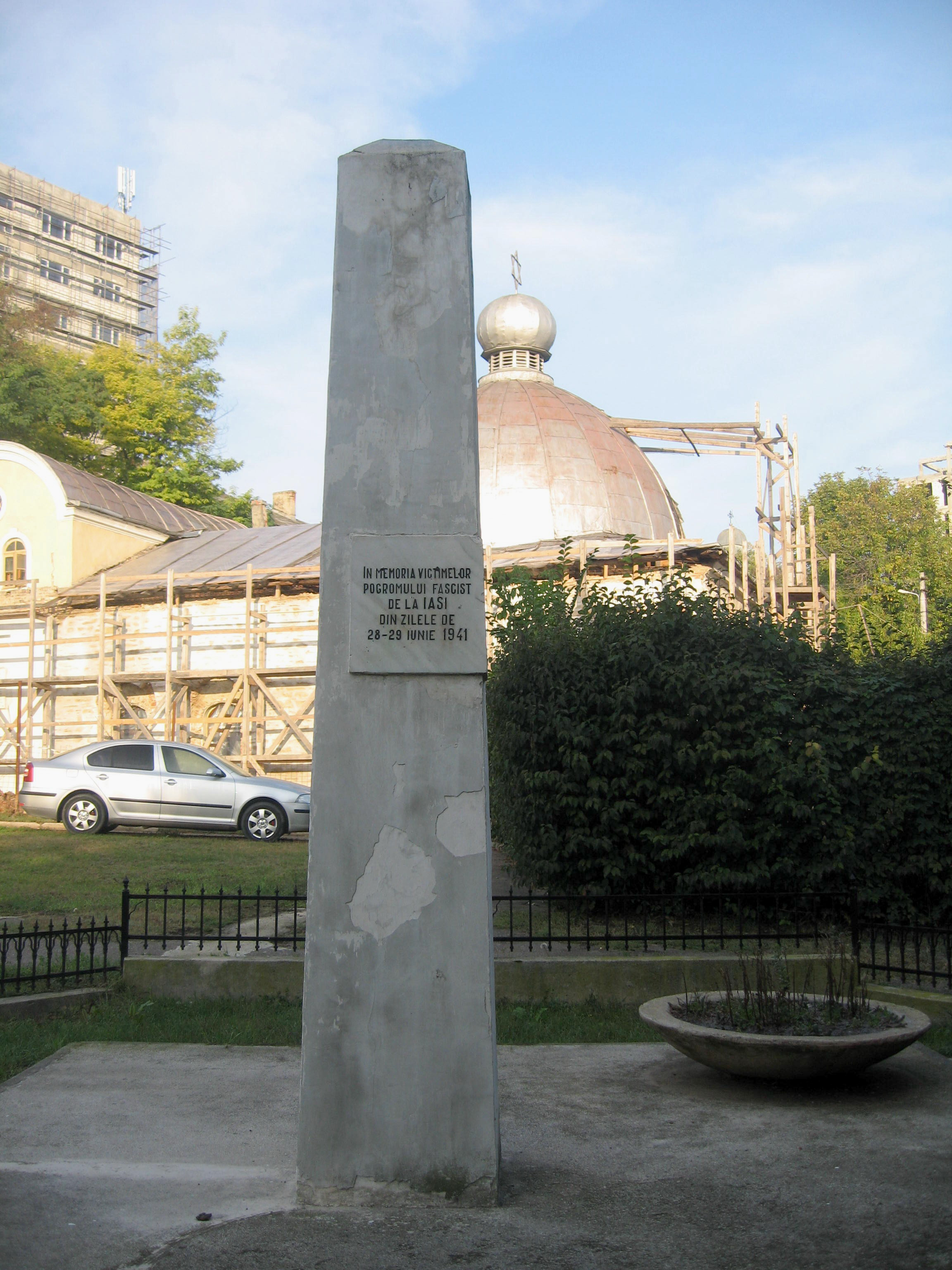 Victims of Iași Pogrom Monument